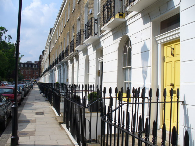 Old Church Street, Chelsea Expensive terraced houses. Four storeys in brick, bottom 2 of which have white plastered walls.